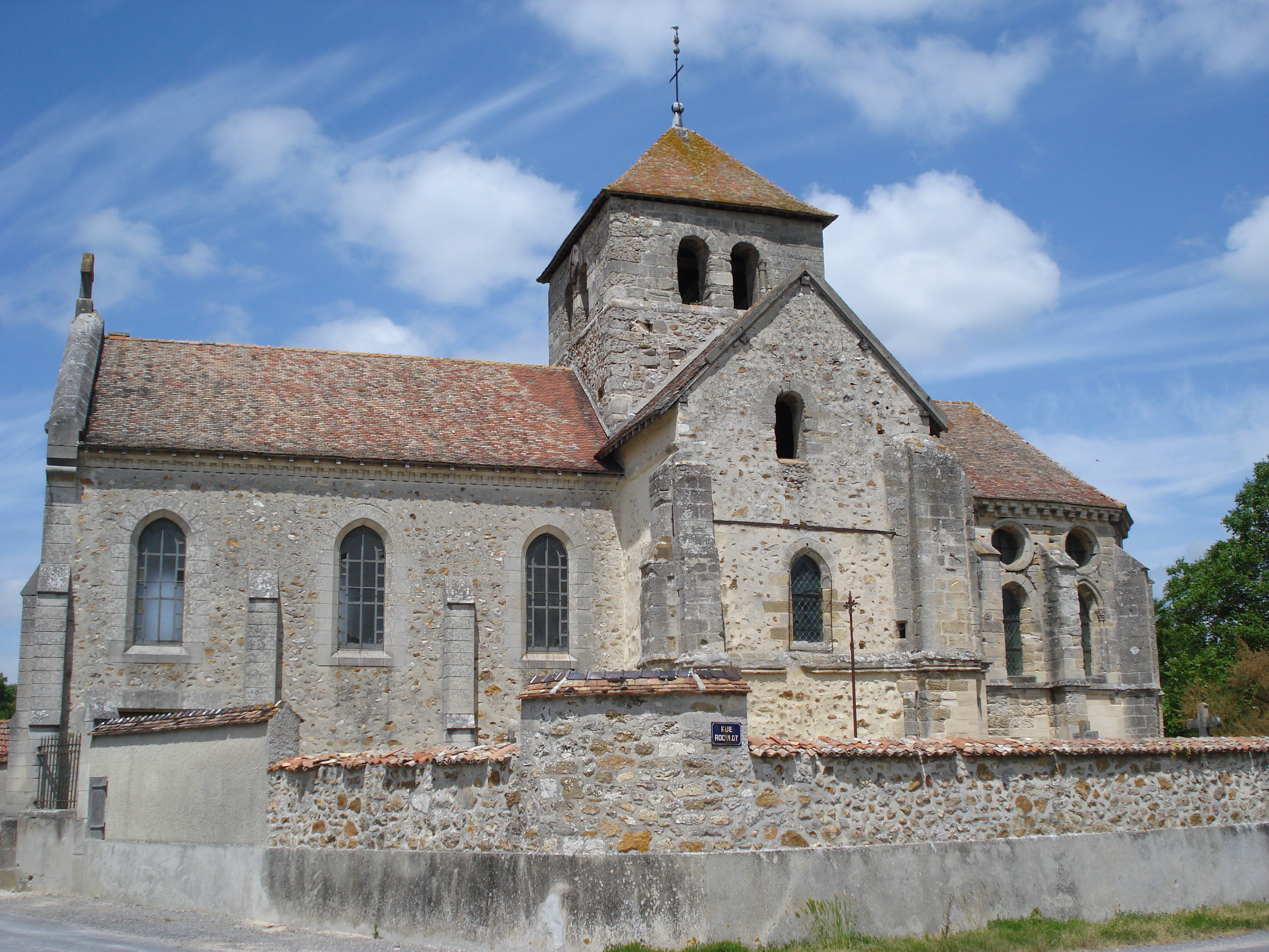 Church of Courmelois (Val-de-Vesle) Marne, Fr